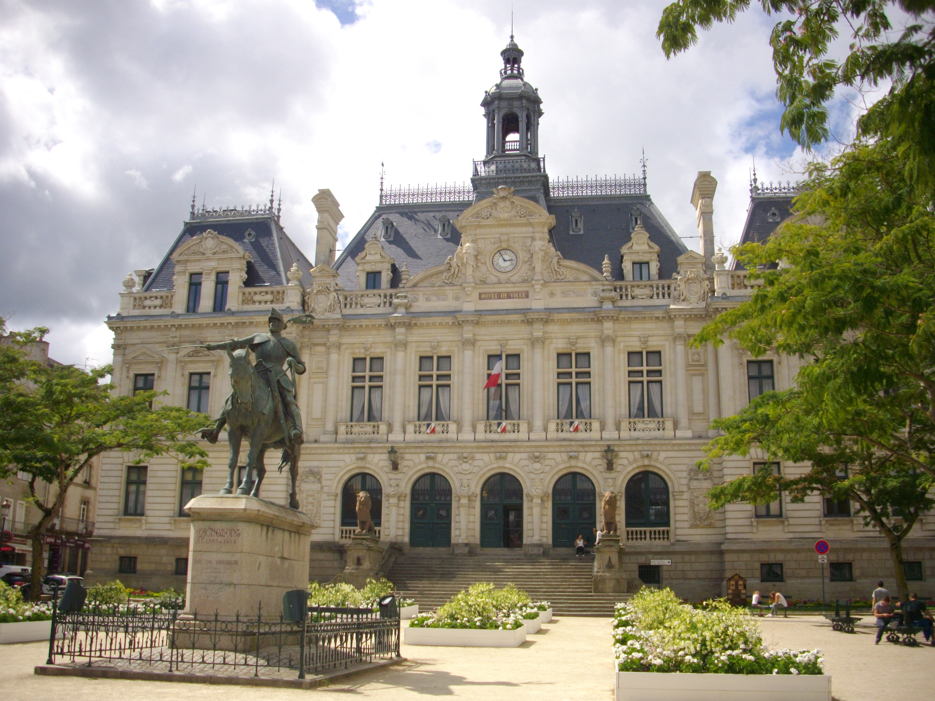 Town hall of Vannes (Morbihan, France) .